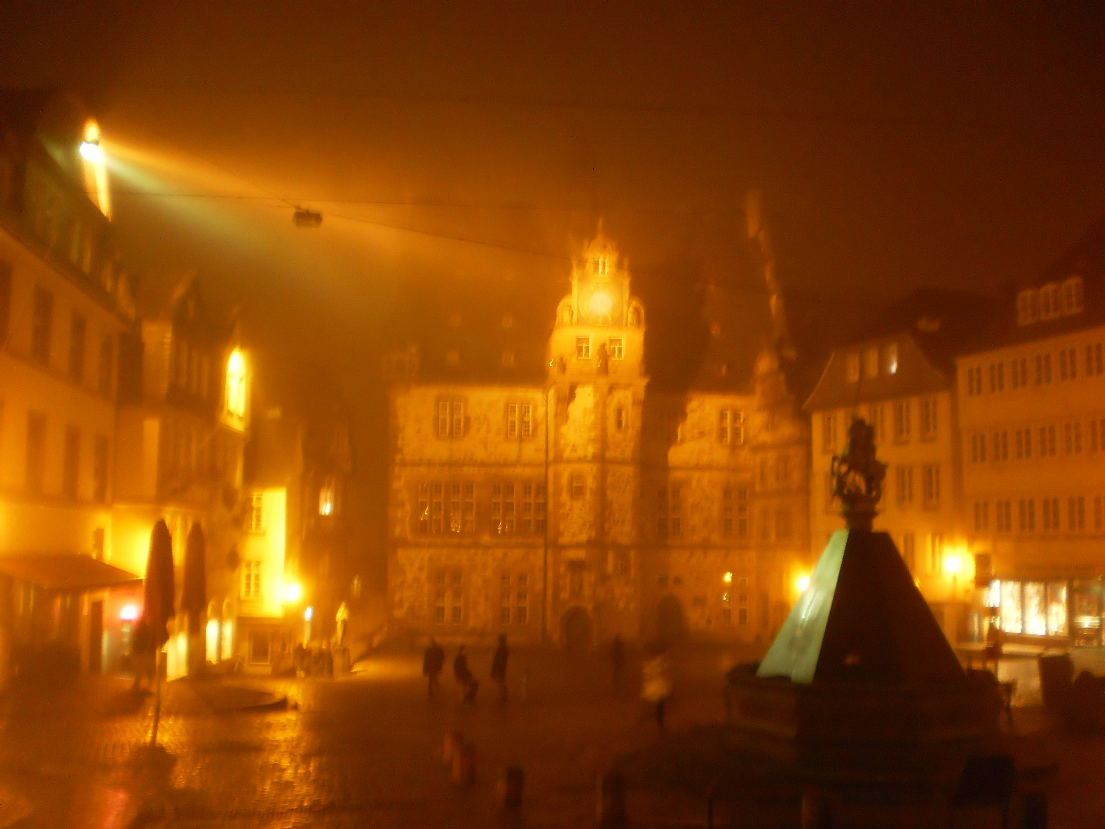 Town hall Marburg (Hesse) and market place fountain in fog-night (Winter 2015-2016 in Hesse).